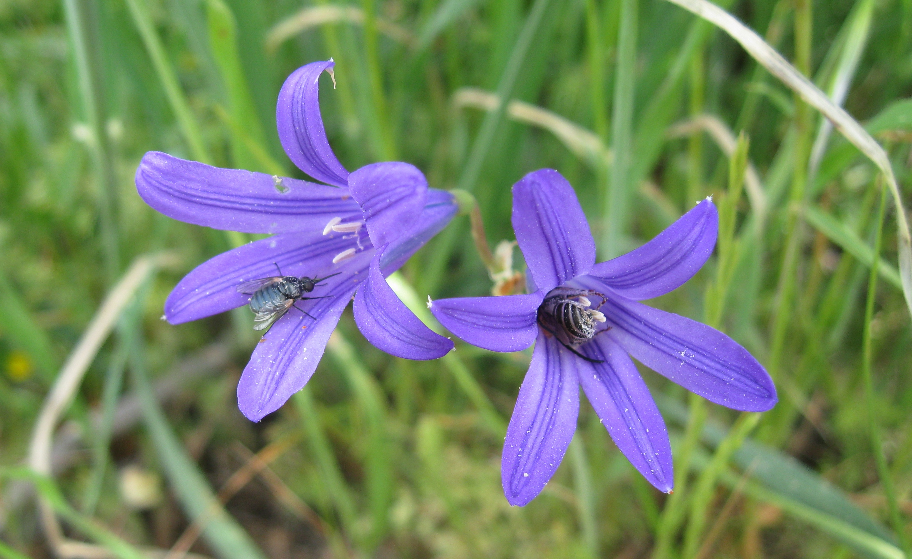 Ixiolirion tataricum in As-Samu , Hebron , Palestine Authority